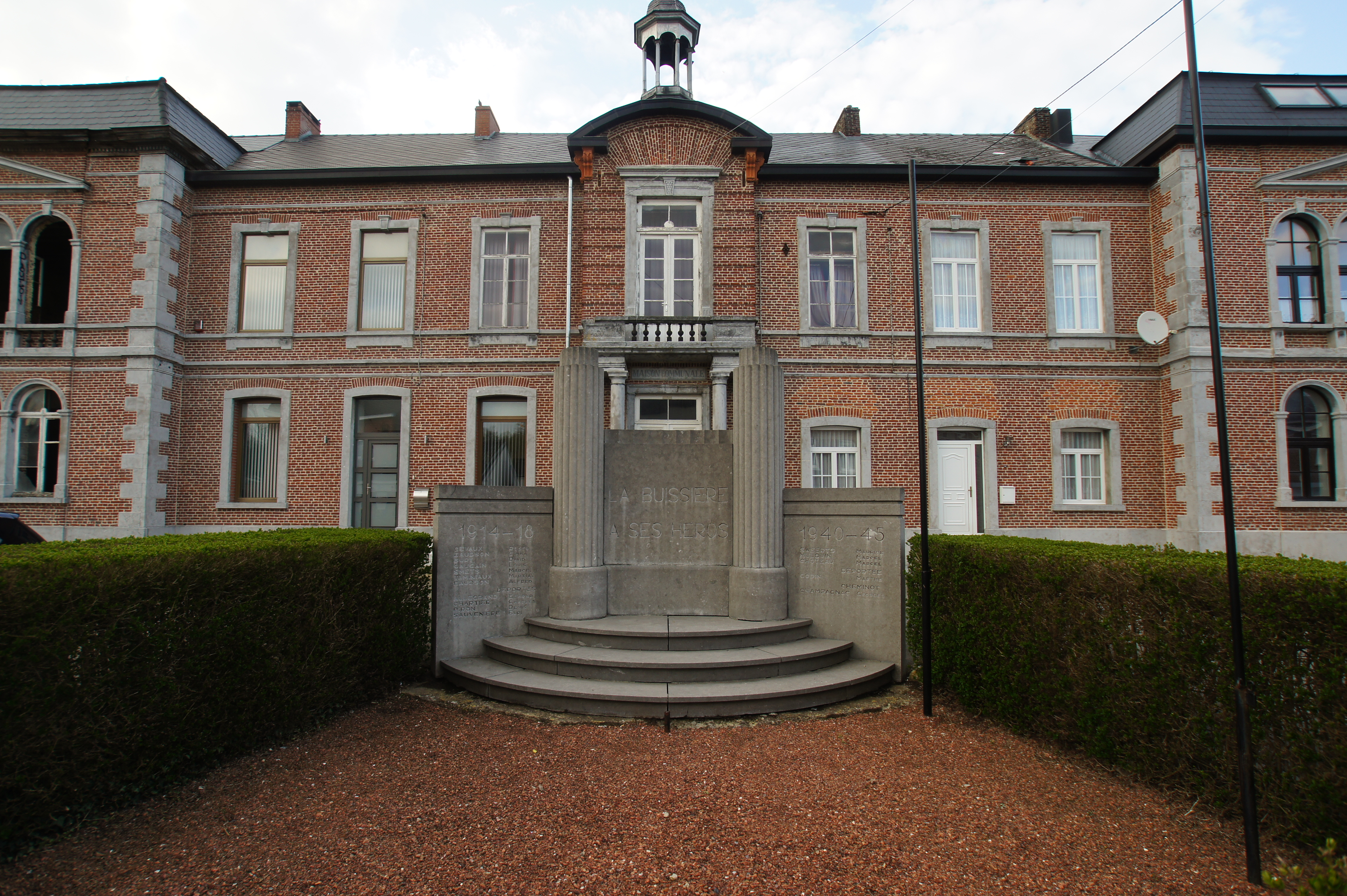 Labuissière, Belgium: Former City Hall and monument to the victims of both world wars